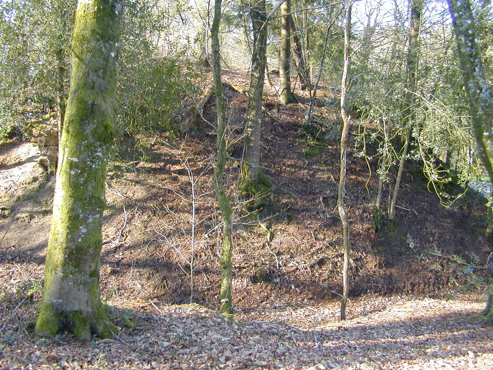 Feudal clod in Lead the year Lez